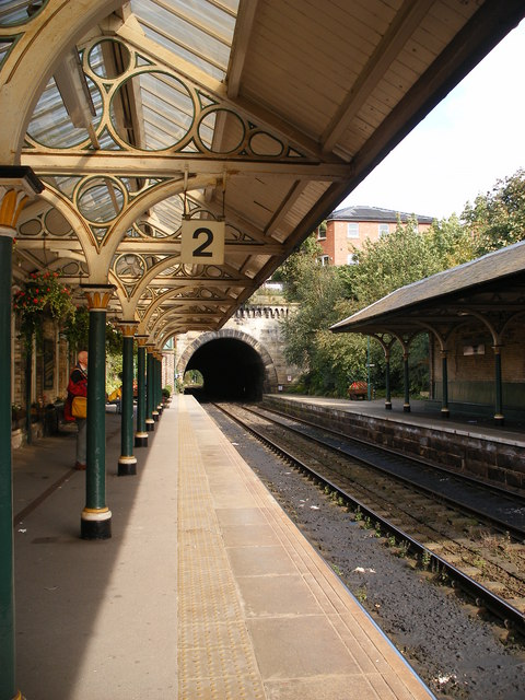 Knaresborough railway station Original description: Platform 2